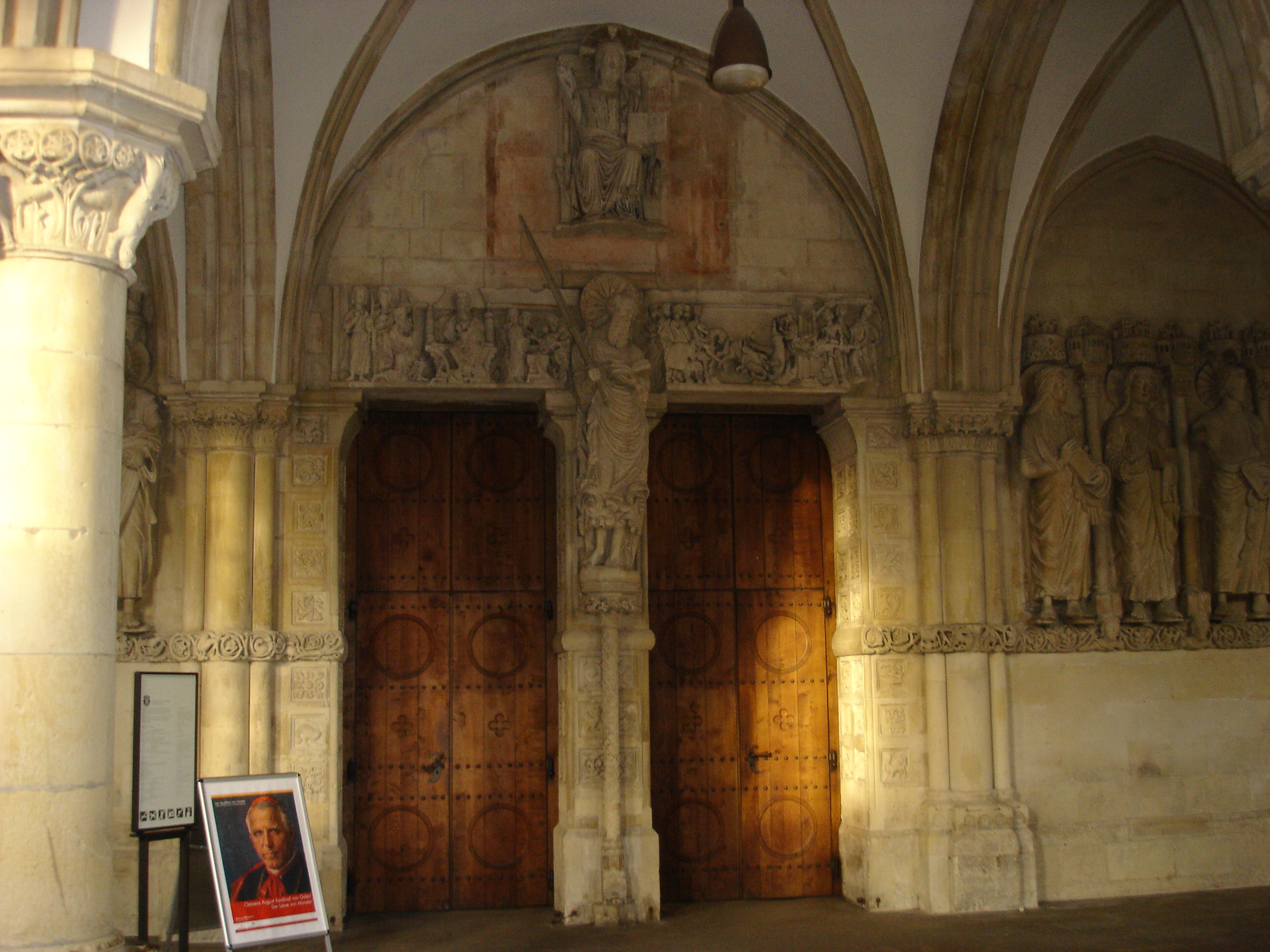 Main entrance wihthin the "Paradiesvorhalle" of the cathedral of Münster, Westphalia, Germany